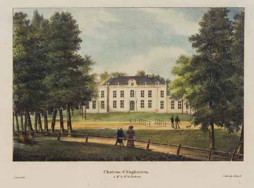 Chateau d'Enghuizen, 1827-1829